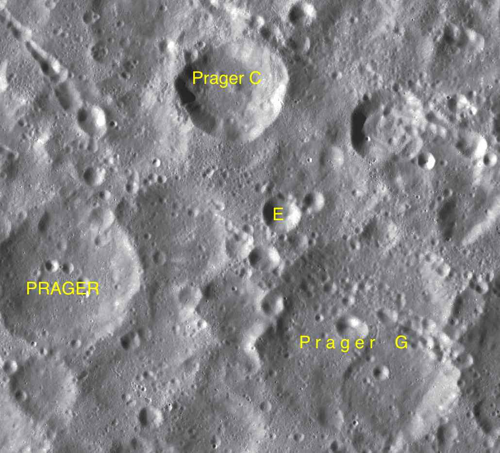 Part of the chart LAC-84 used for the presentation